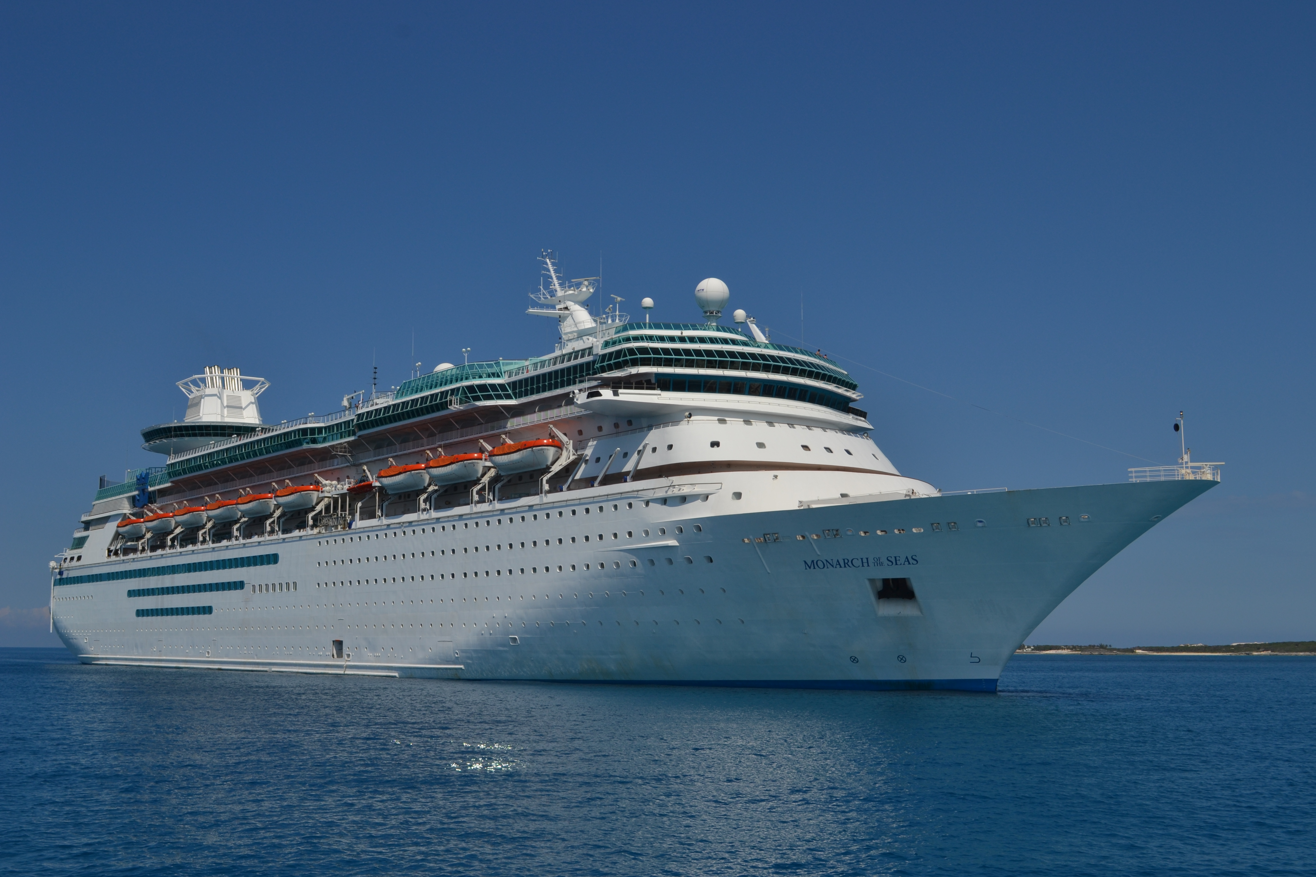 Monarch of the Seas anchored infront of Coco Cay